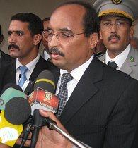 "Gen. Mohamed Ould Abdel Aziz in his home city Akjoujt, Mauritania, 15 Mar 2009" Note that the man at right is in the distinctive grey uniform of an officer of the Mauritanian Armed Forces. "General Mohamed Ould Abdel Aziz said Saturday the military would proceed with the plan for presidential elections on June 6, saying the polls would be free and fair, and open to all. Speaking at a rally in his native city of Akjoujt , General Aziz said Mauritanians have the duty to register and to vote for the candidate they feel will best lead the country forward."